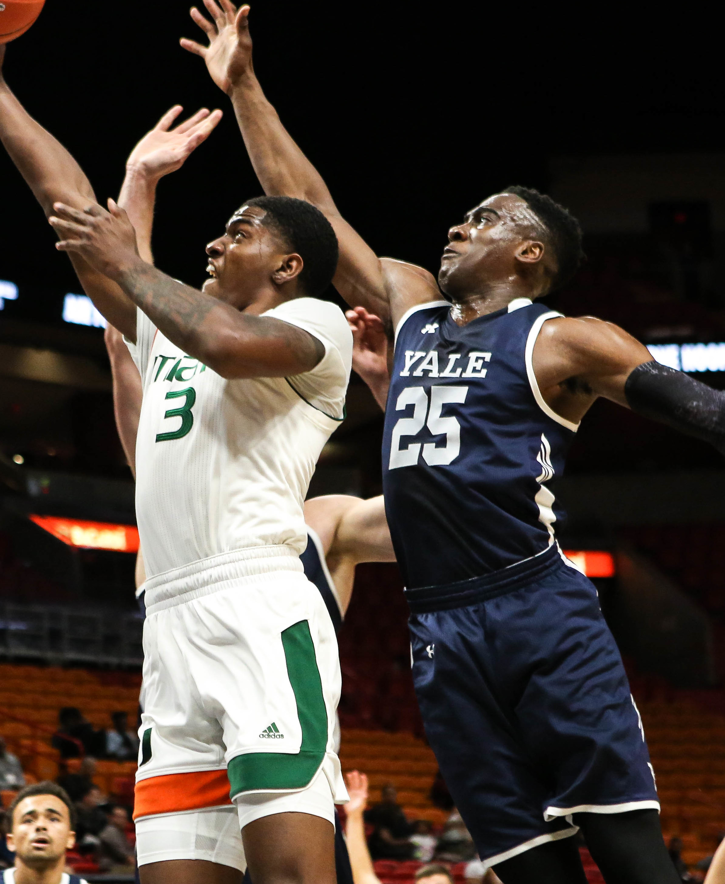 Miami vs. Yale Men's Basketball :: Naismith Basketball Hall of Fame Air Force Reserve Hoophall Miami Invitational 2018 Presented by Citi :: Keenan Hairston Photographer. (#3 Anthony Lawrence II)